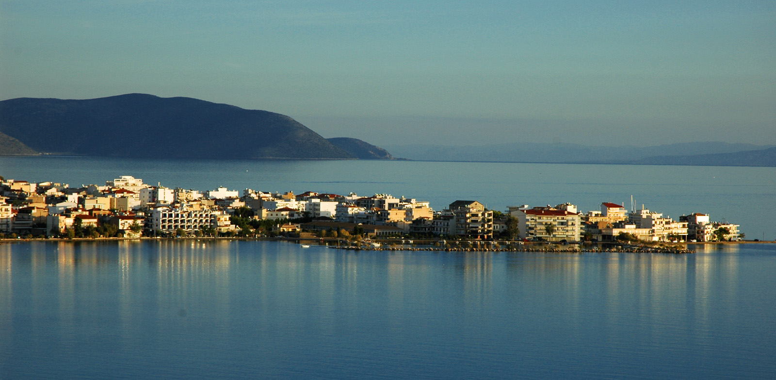 Itea city, Greece